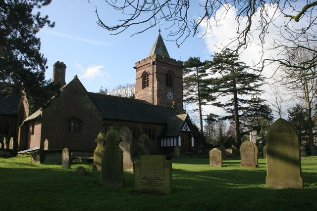 Photograph